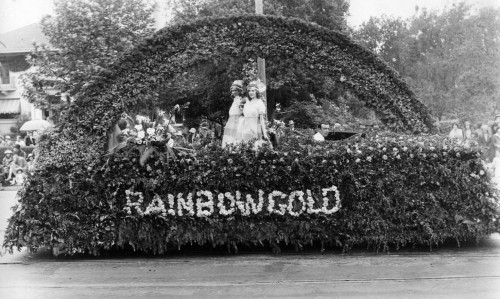 Notre Dame High School - Class of 1929 - Rainbow Gold - Float in San Jose's Fiesta de las Rosas Parade. Frank J. Steiner